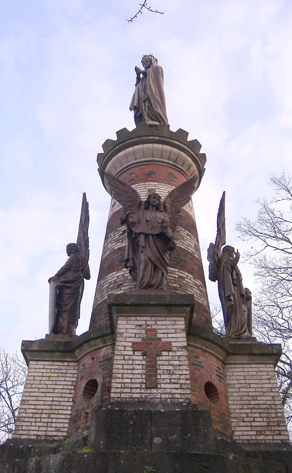 Our Lady of Triumph statue, in Our Lady of Health Abbey (Trappist), in Entrammes Mayenne, France